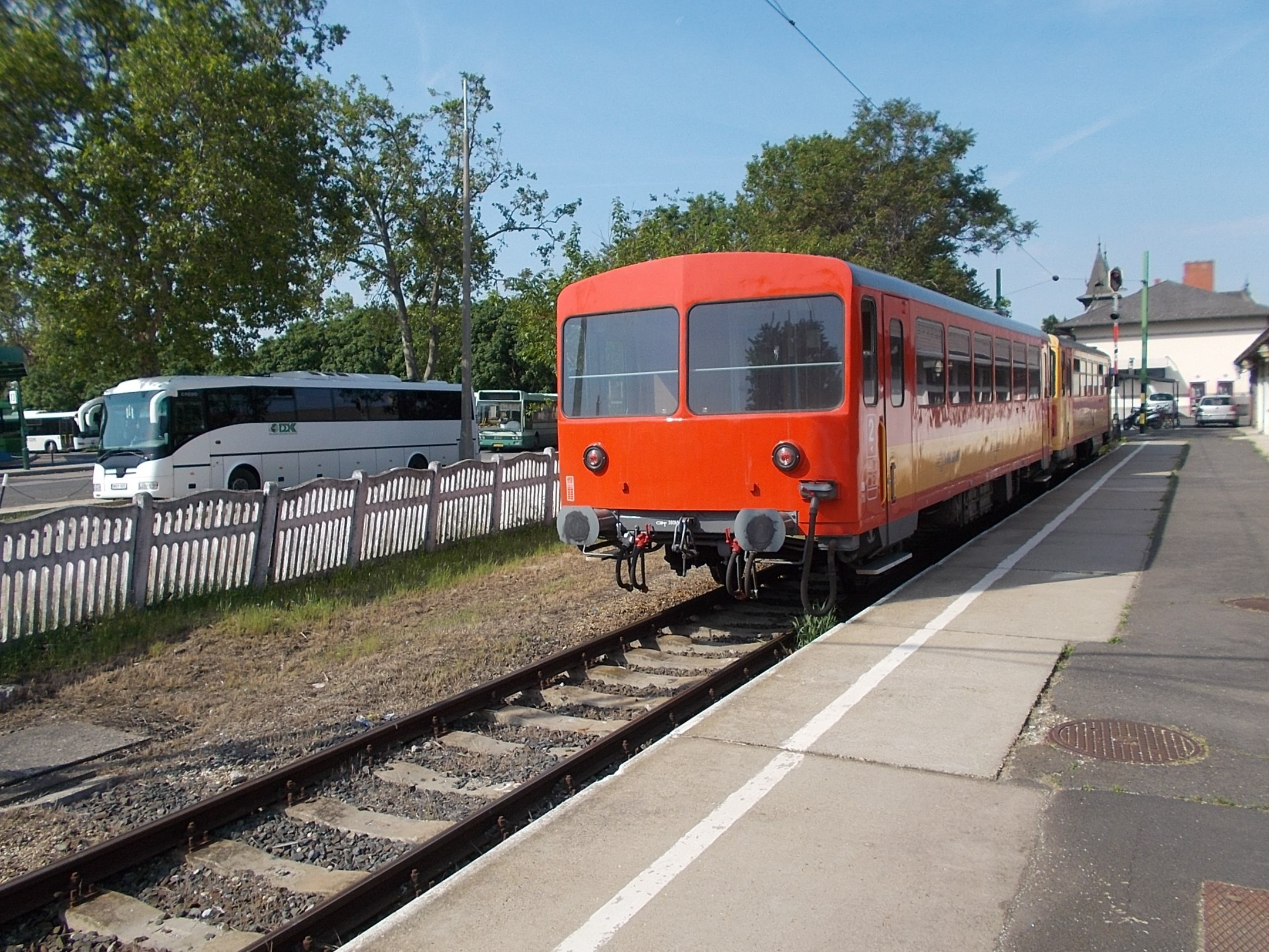 Siófok railway station, track 'A' and DDKK bus(es) at bus station. - Siófok, Somogy County, Hungary.